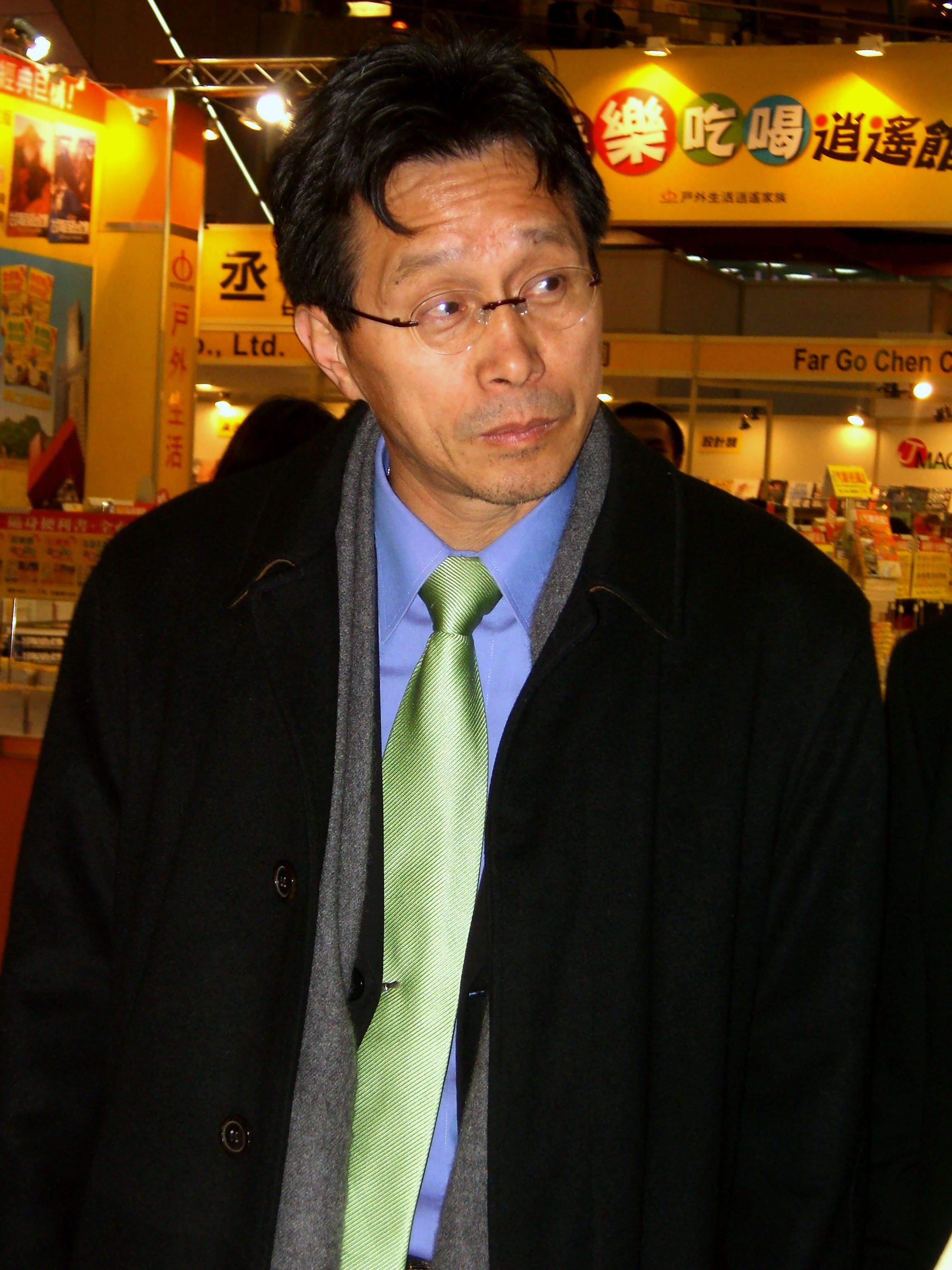 2008 Taipei International Book Exhibition - Australia Pavilion: Minister of Government Information Office Jhy-wey Shieh.